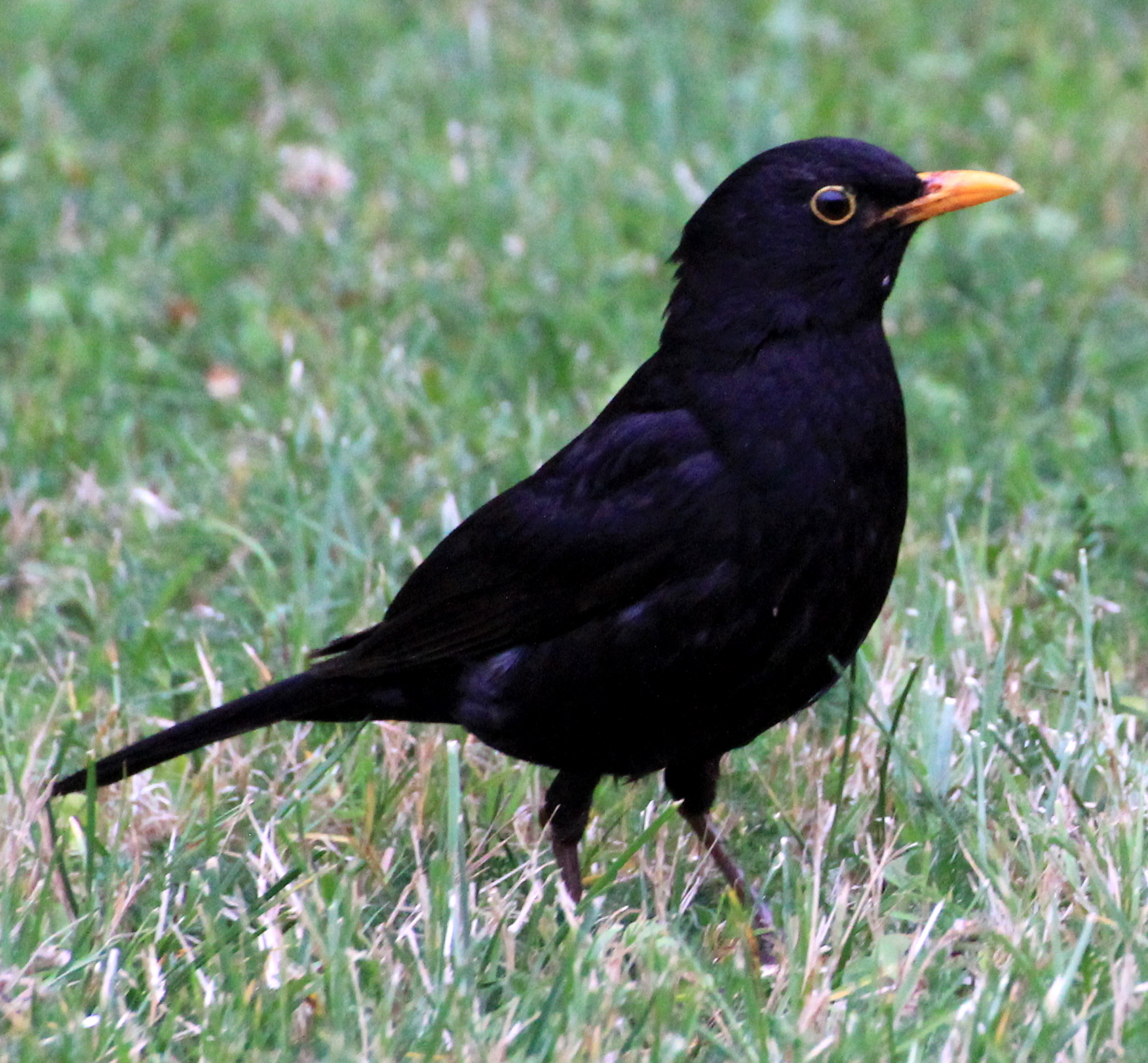 Turdus Merula in the garden of the Basilique Saint-Sernin in Toulouse